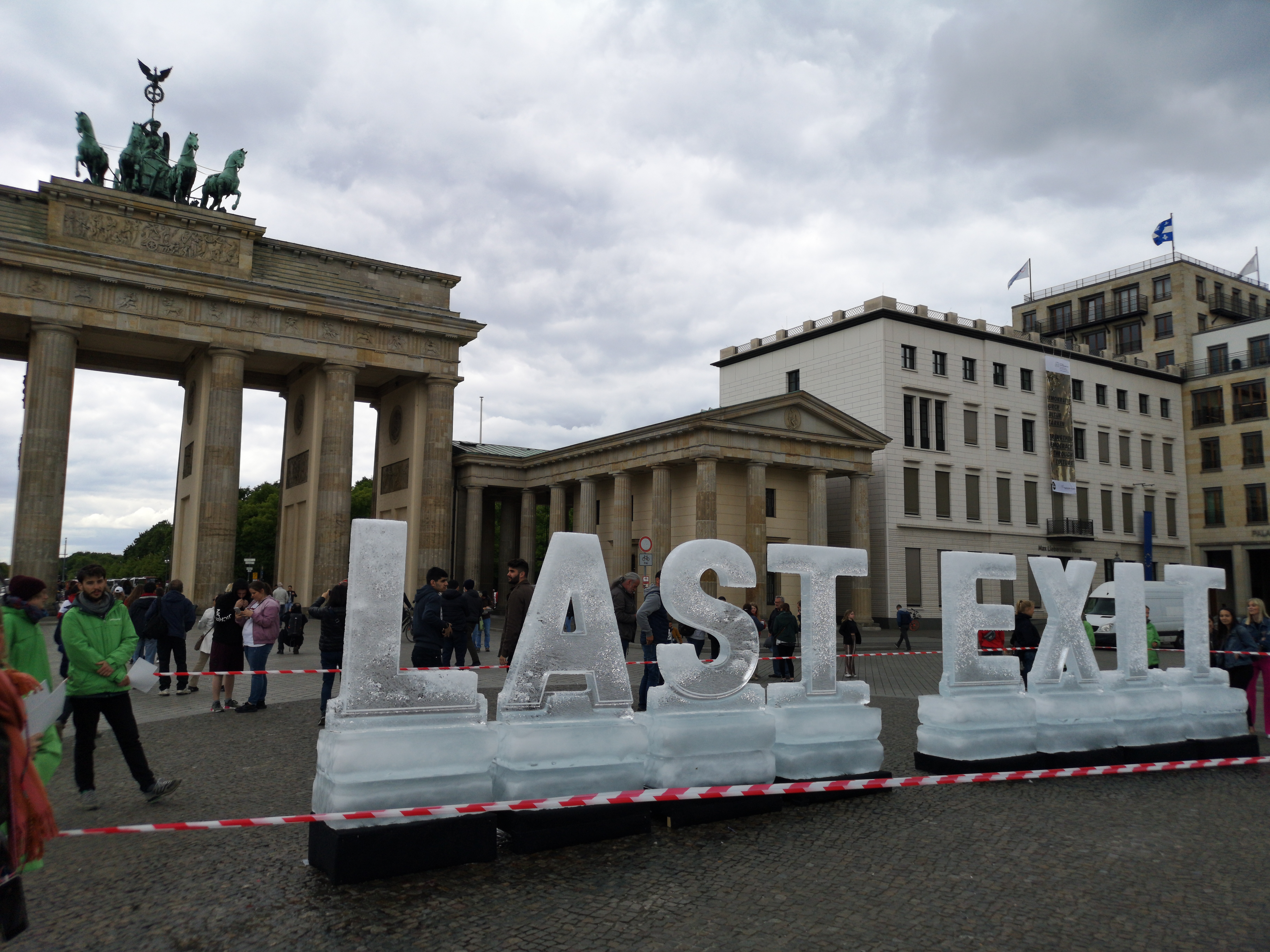 Last Exit by Greenpeace in front of Brandenburg Gate 2019-05-14